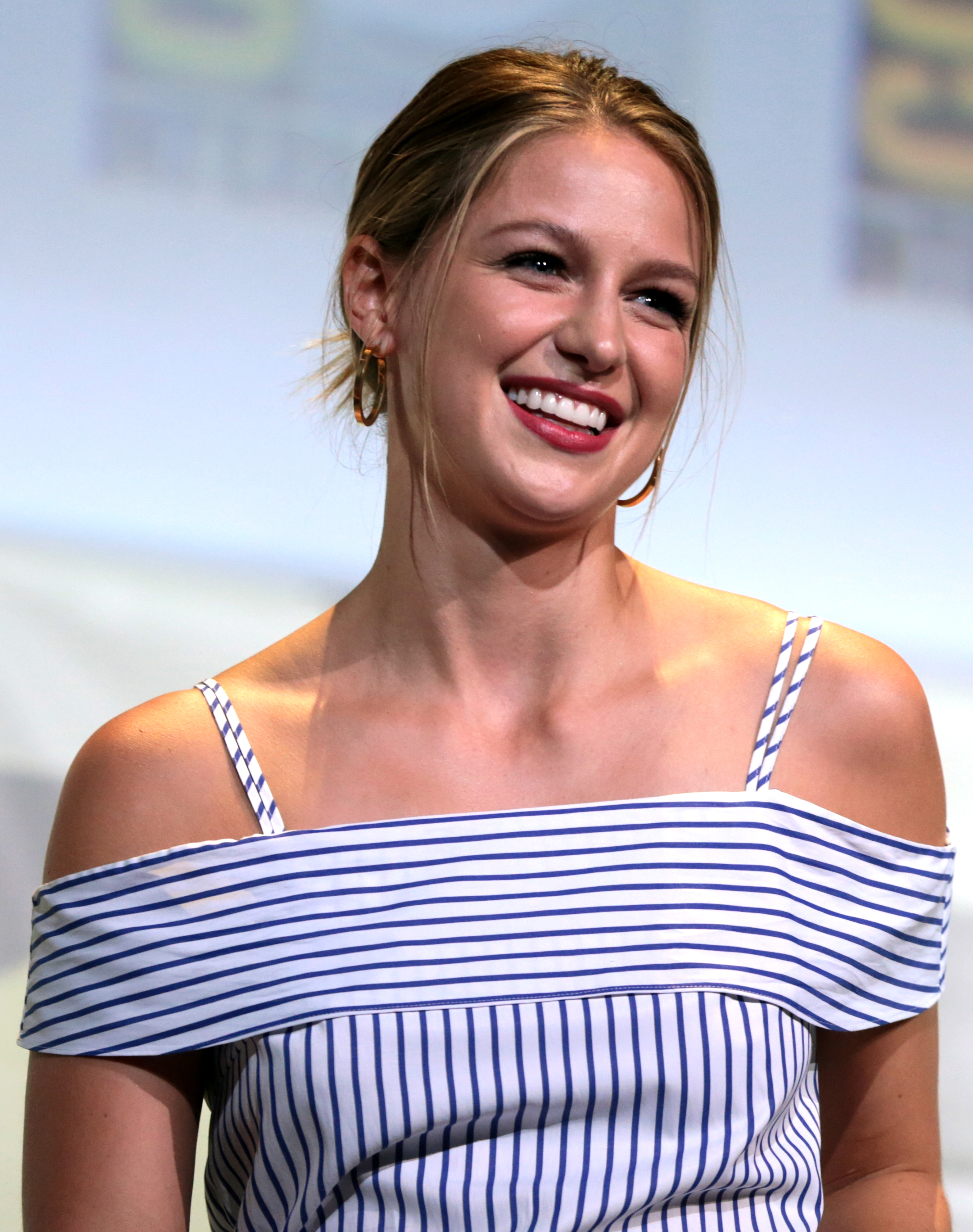 Melissa Benoist speaking at the 2016 San Diego Comic-Con International in San Diego, California.